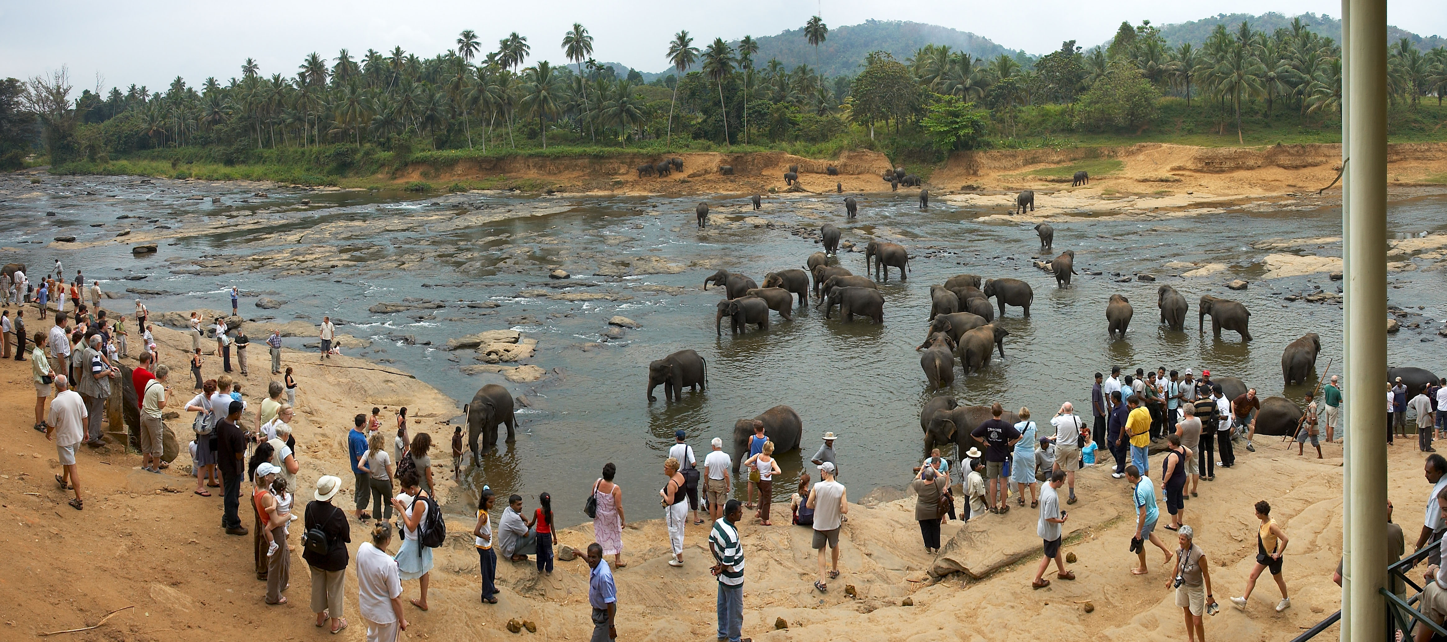 Tourist attraction: elephants in the water at Pinnawala Elephant Orphanage in Sri Lanka.